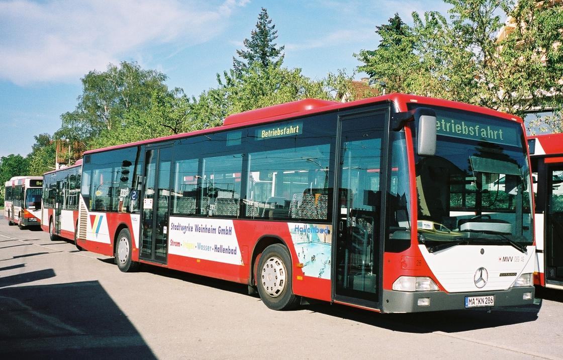 An Mercedes-Benz/EvoBus Citaro owned by MVV OEG AG in Weinheim an der Bergstraße, Germany .